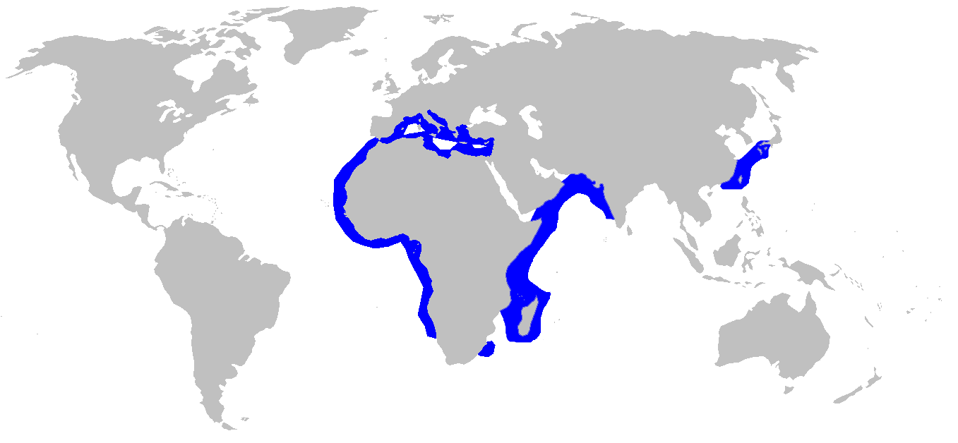 Distribution map for Longnose spurdog (Squalus blainville)